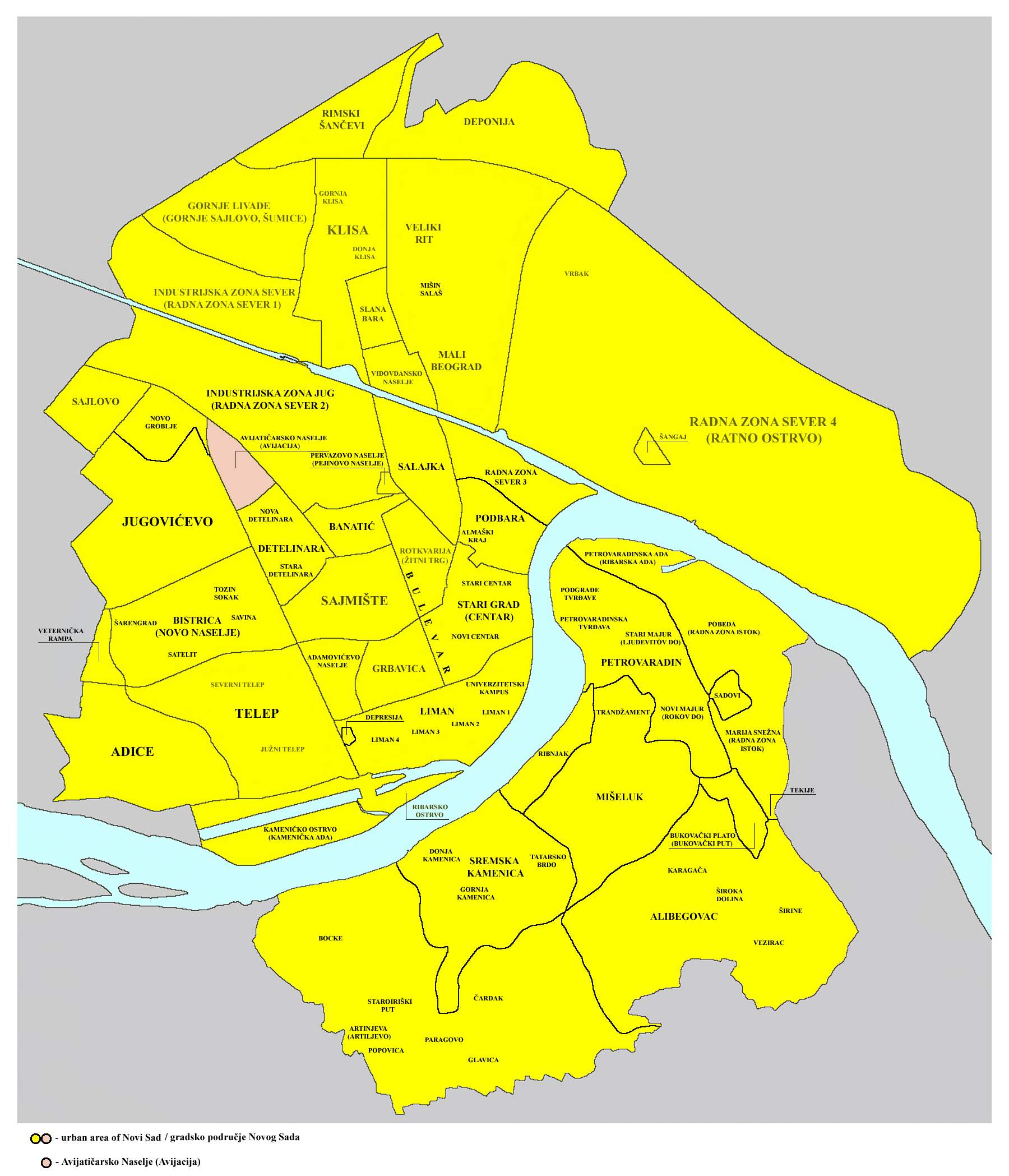 Map of the urban area of Novi Sad with city neighborhoods and marked location of Avijatičarsko Naselje (Avijacija).